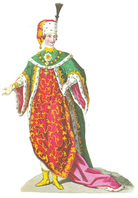 Order of Saint Stefan Hungary; the costume